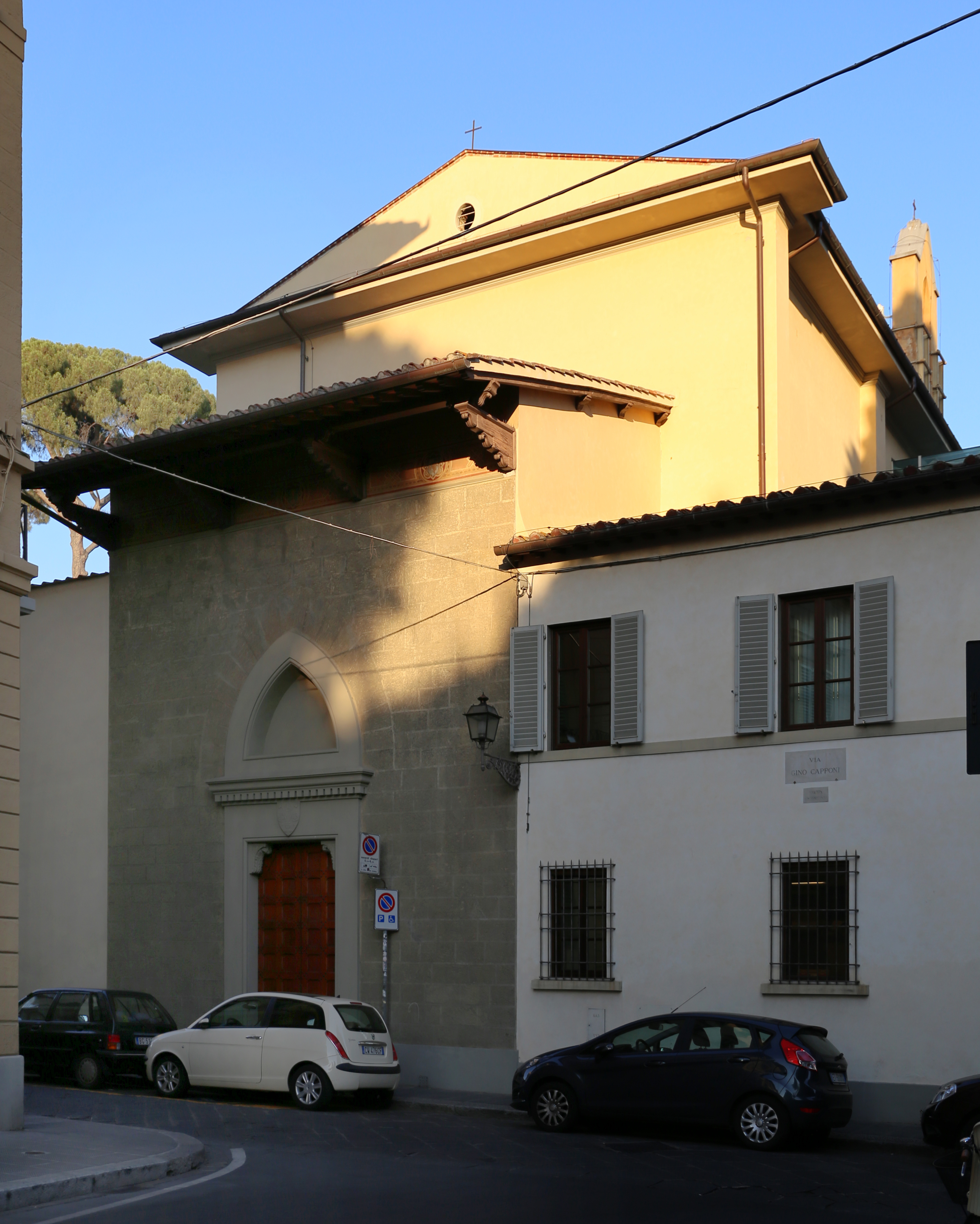 Florence miscellany